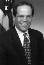 Property of the DOJ.